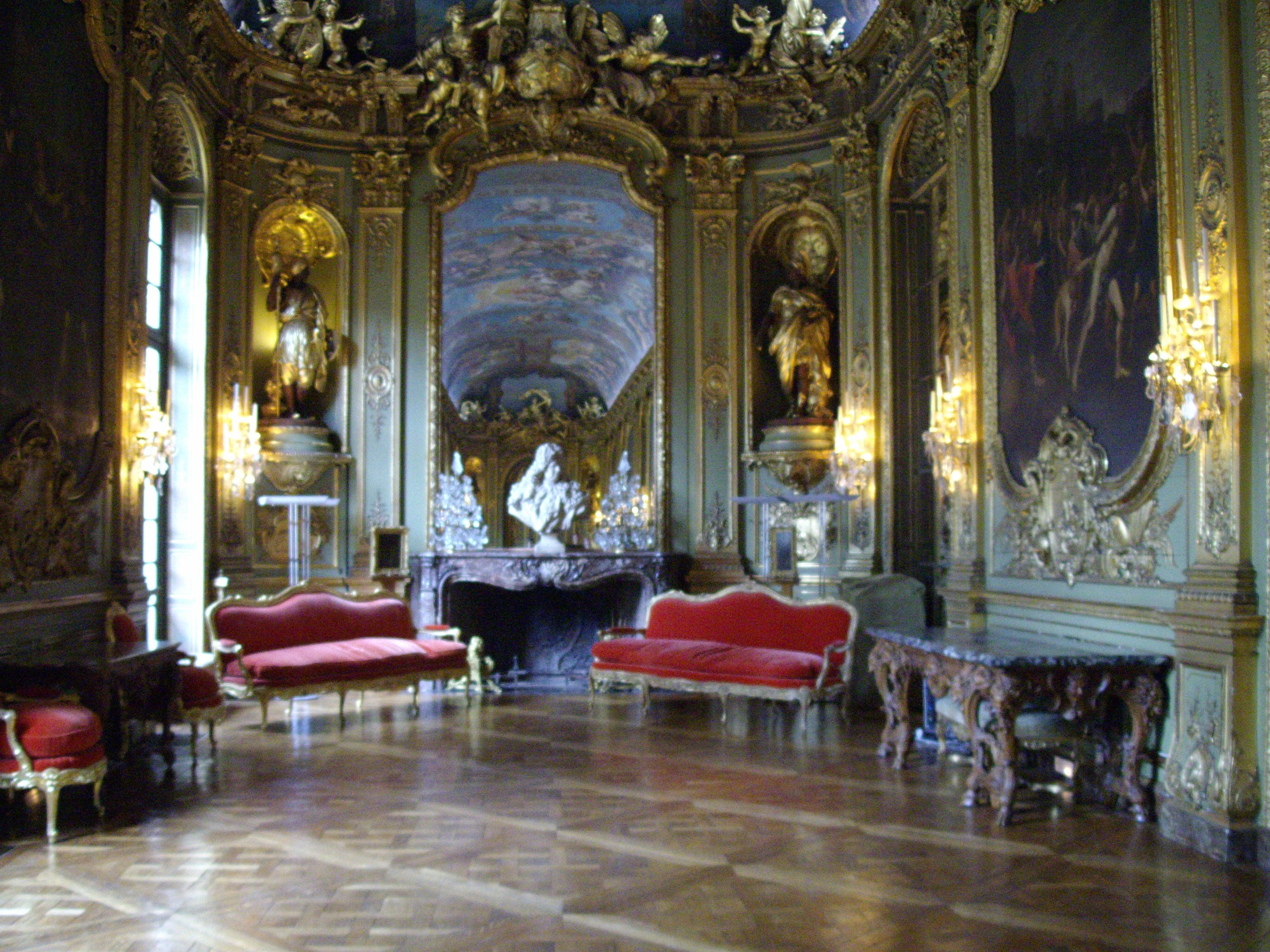 The galerie dorée of the Hôtel de Toulouse, headquarter of the Banque de France in Paris